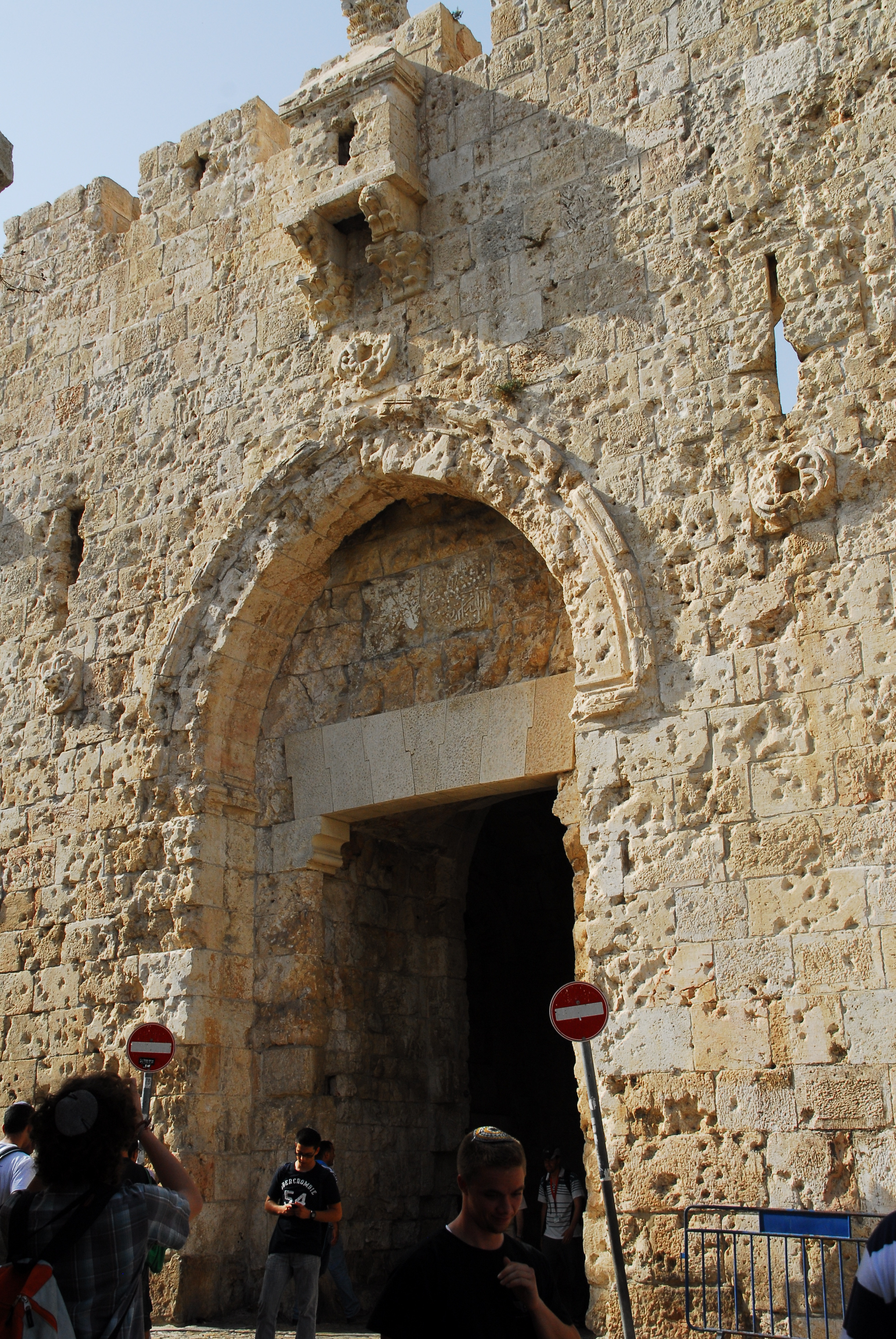 Geography of Israel